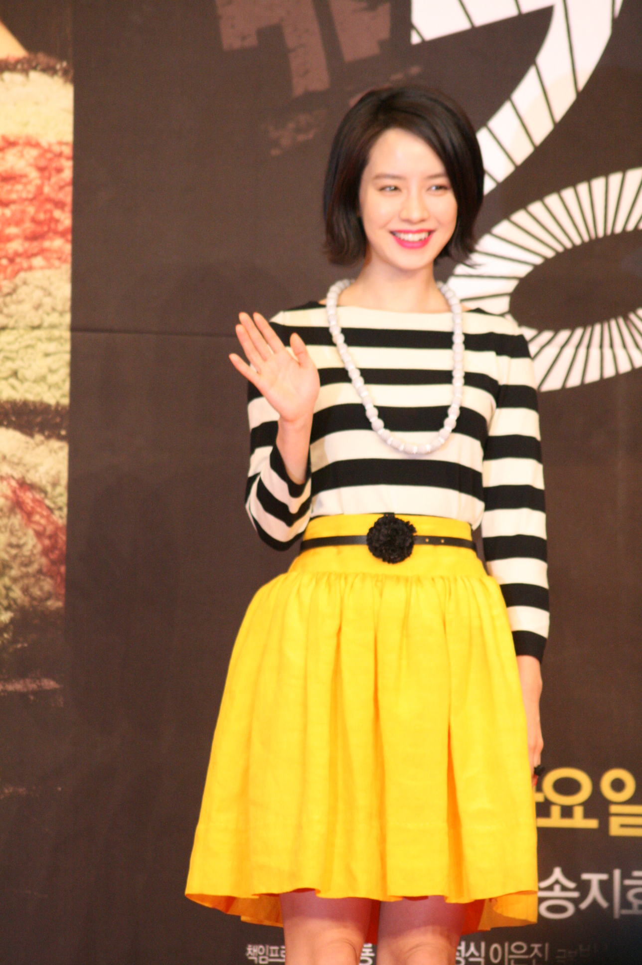 Song Ji Hyo in March 2011